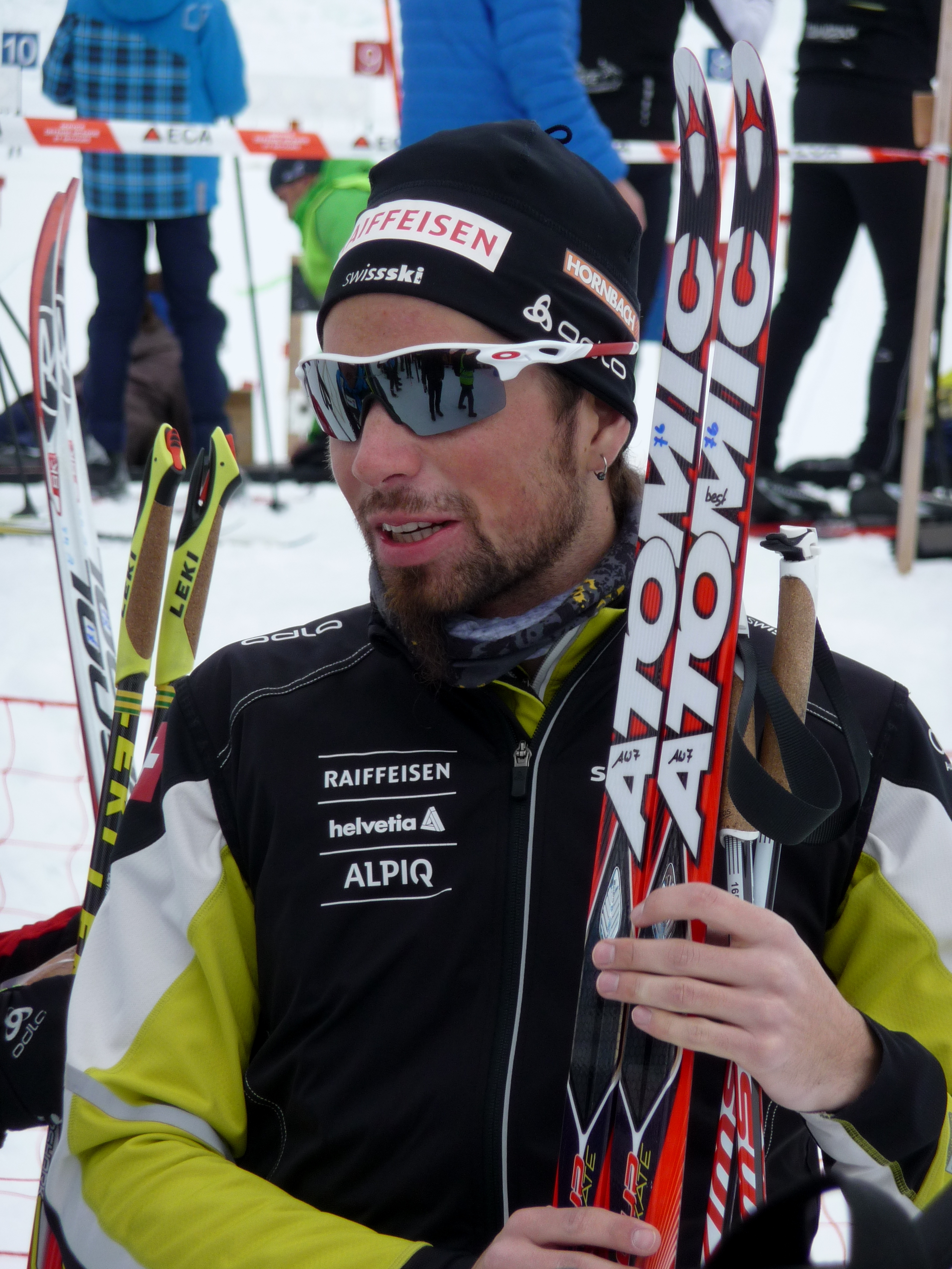 Swiss biathlete Benjamin Weger at National Championships in Biathlon 2013 in La Lécherette, Switzerland